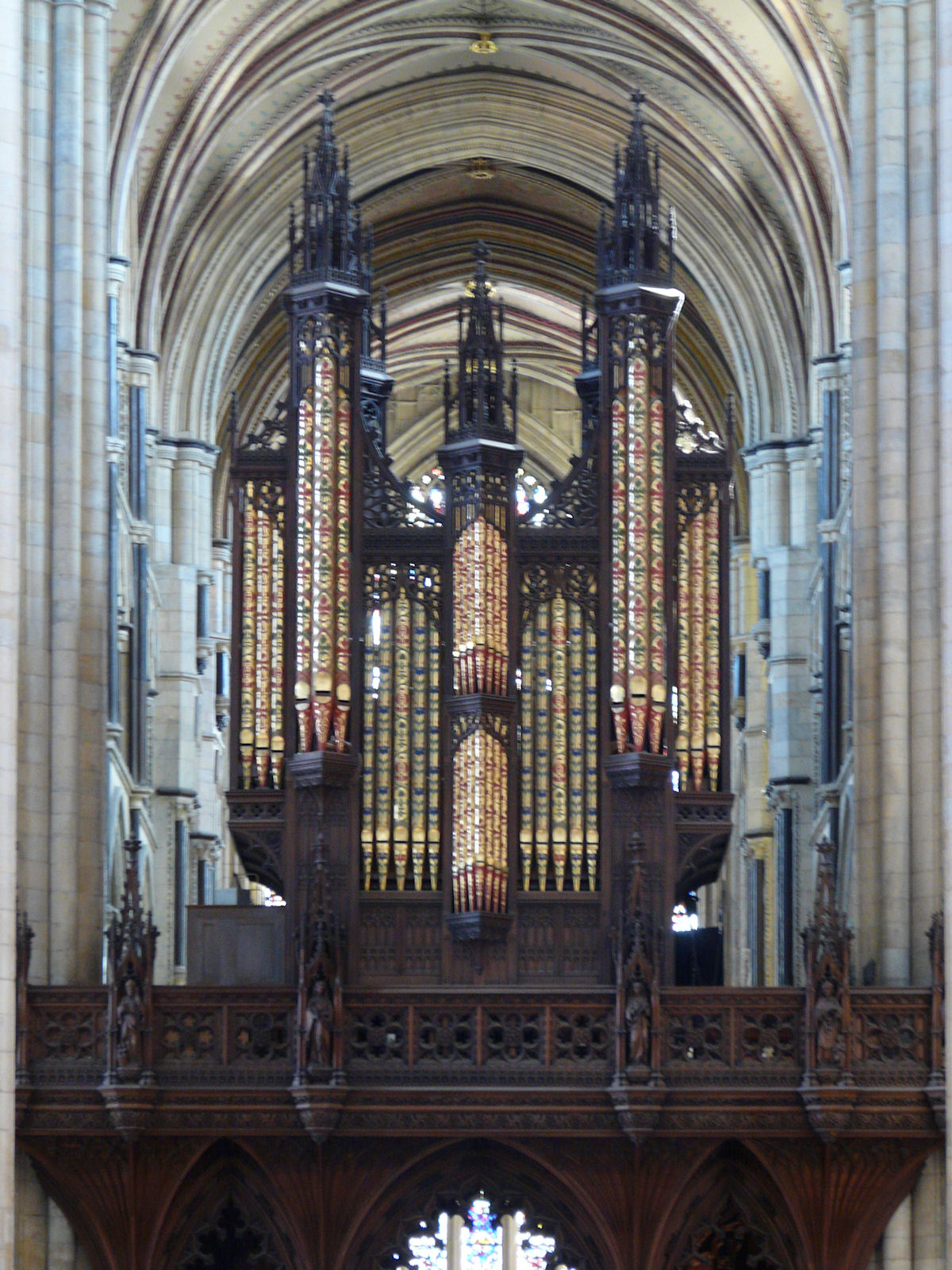 Beverley Minster, Beverley, East Riding of Yorkshire, England.